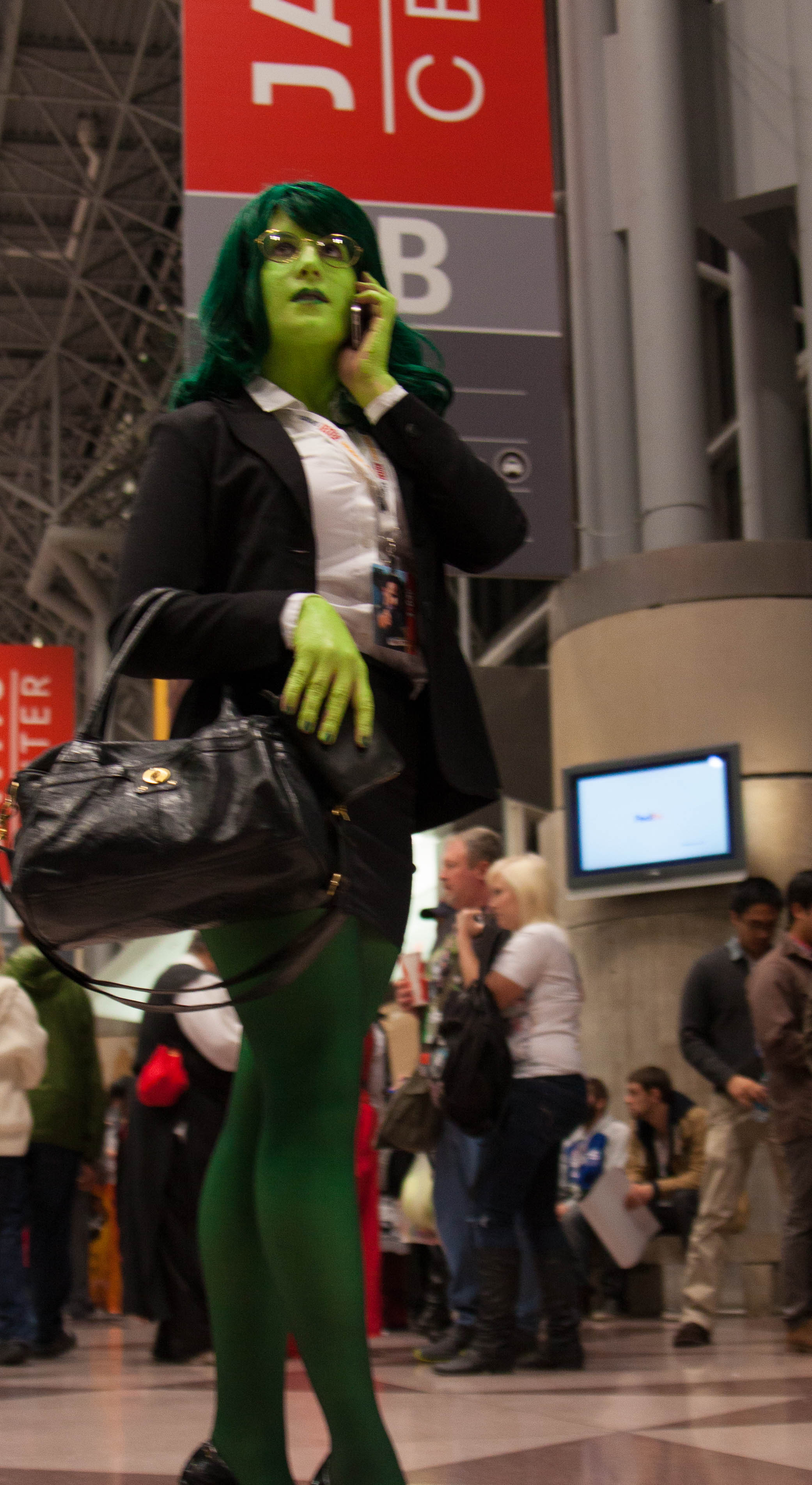 Cosplay of She-Hulk in a lawyer suit, NYCC2012